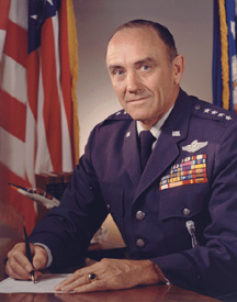 John Dale Ryan, former Chief of Staff of the United States Air Force